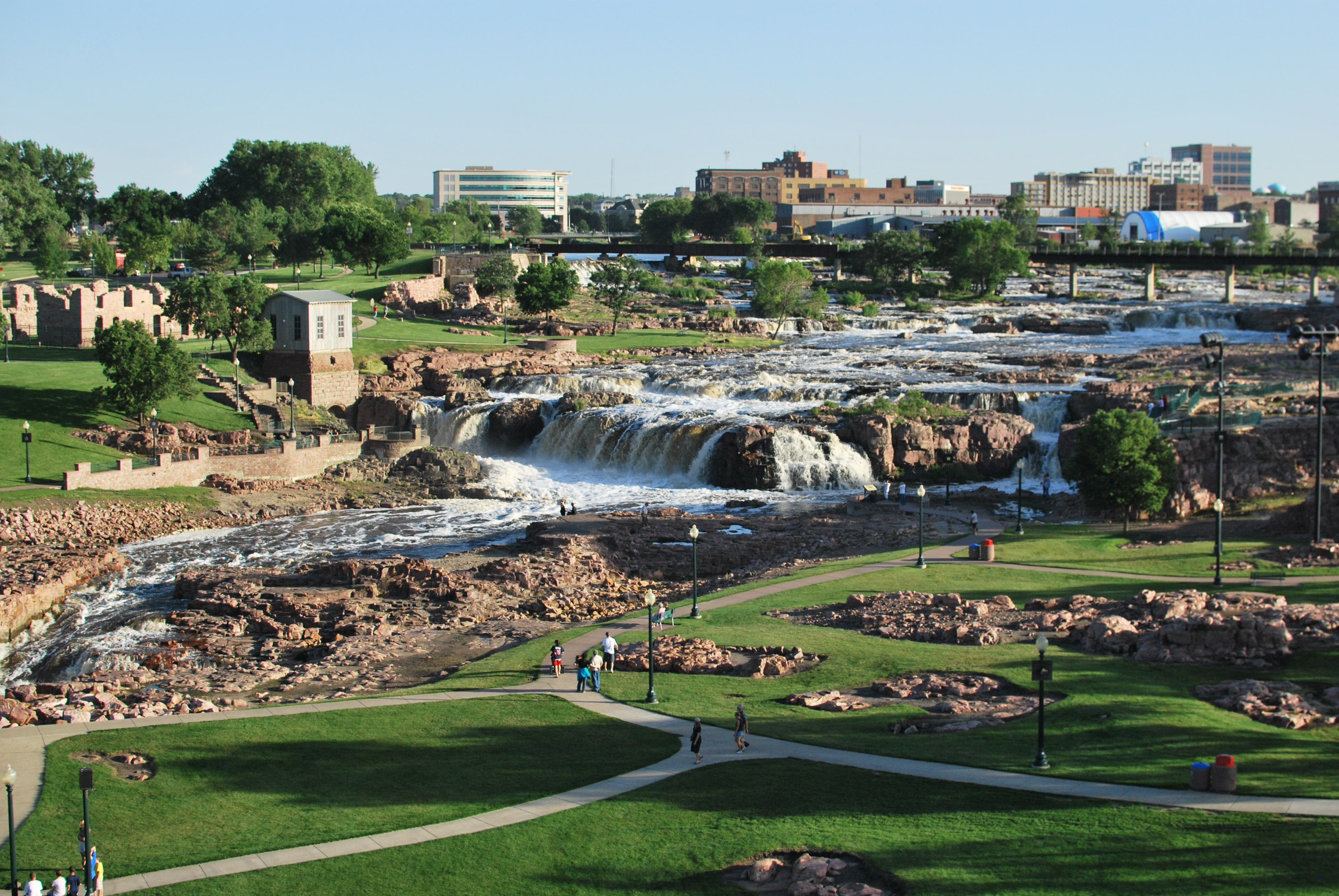 The Falls in Sioux Fall SD